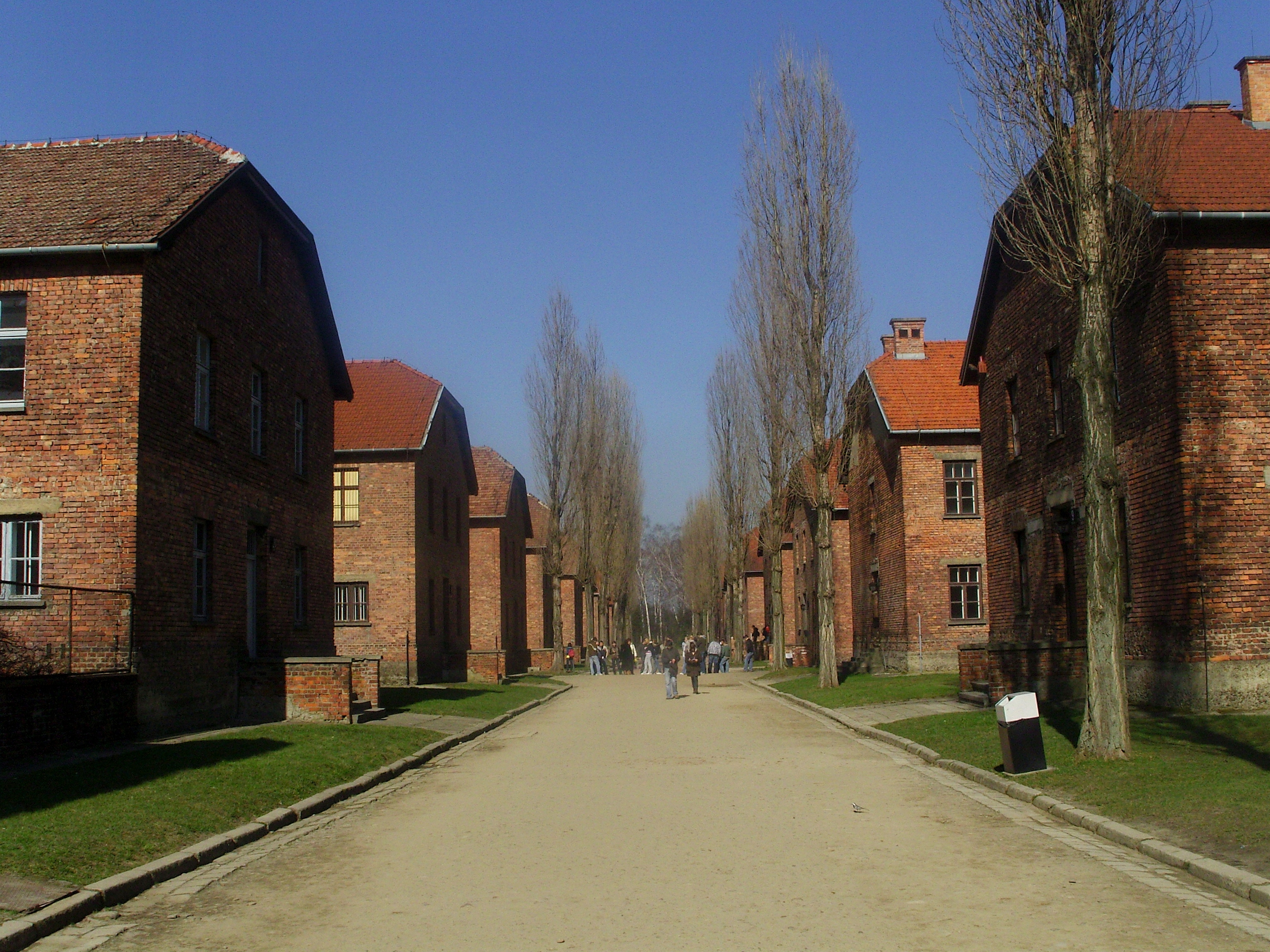 Inside Auschwitz I, the main camp of the Auschwitz complex